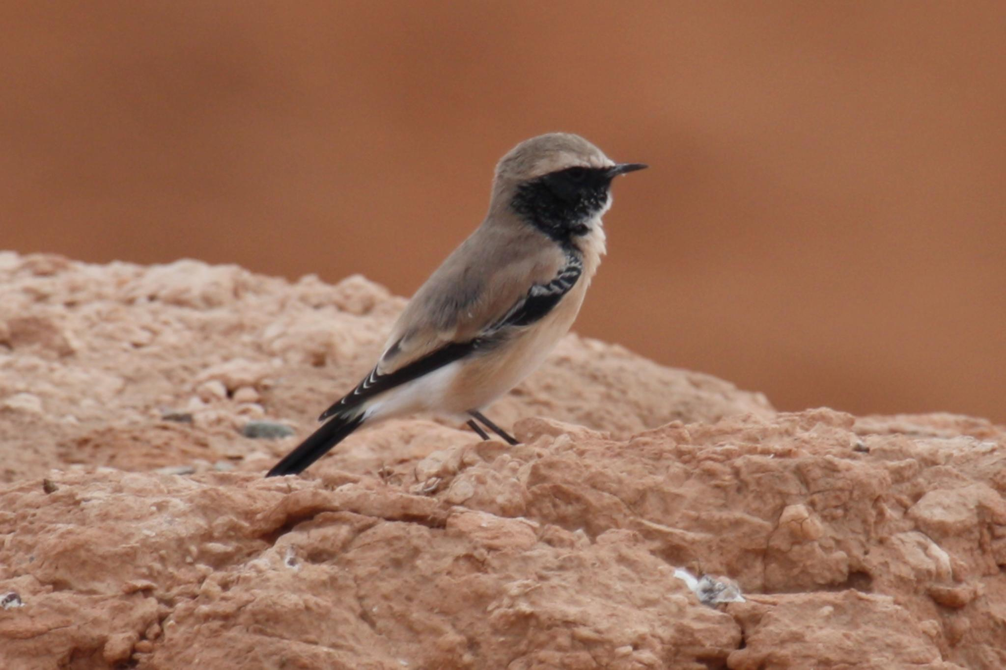 A Oenanthe deserti in Mongolia.